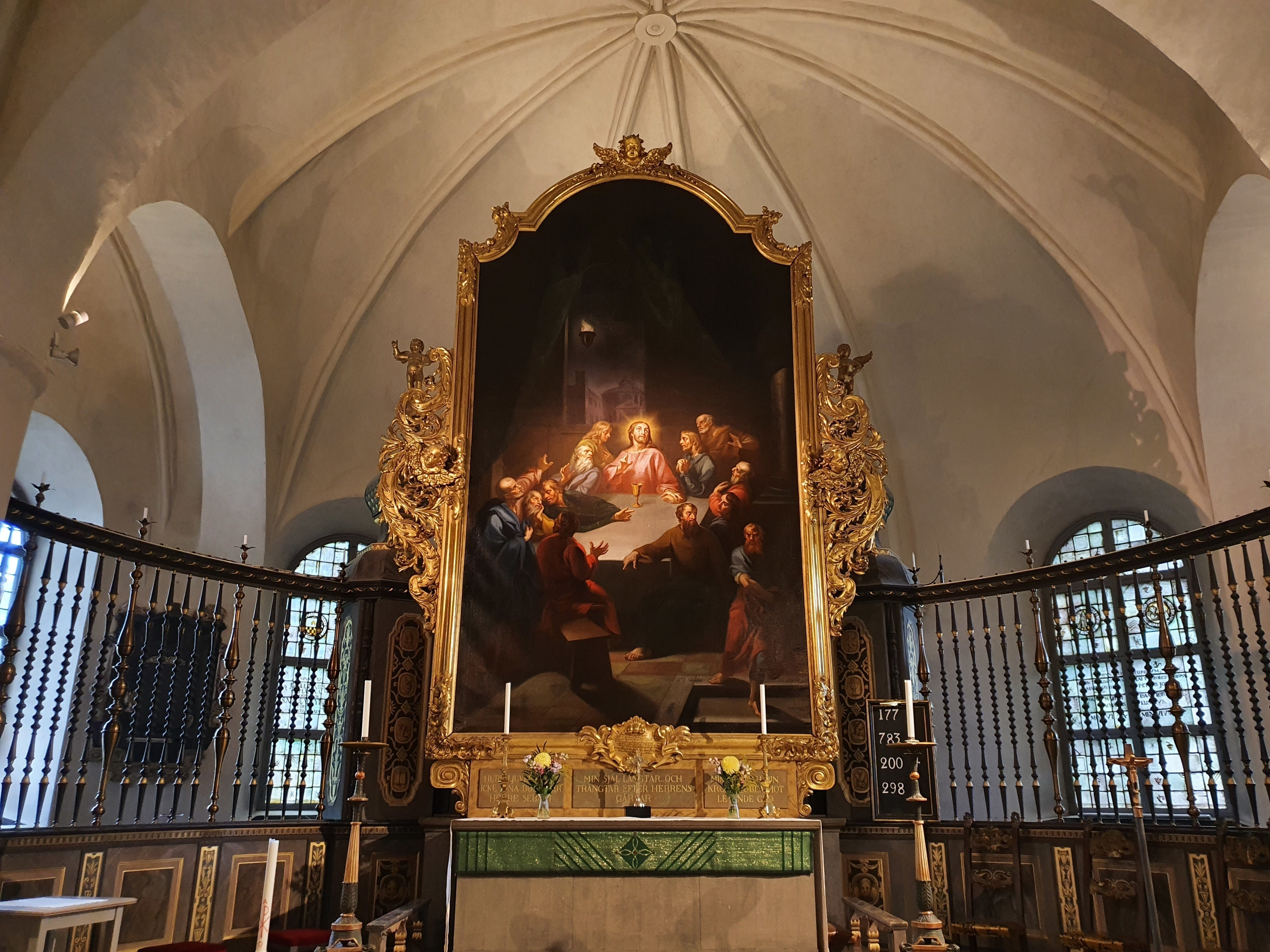 The altar of Sankt Nicolai Church, Nyköping.